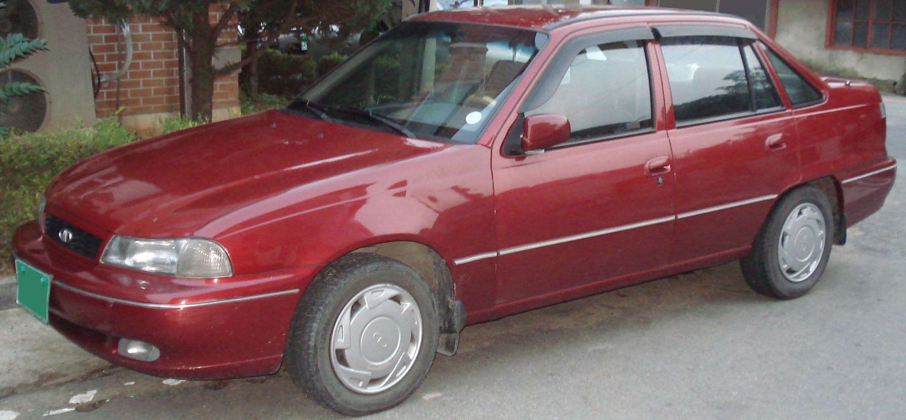 Daewoo Cielo sedan